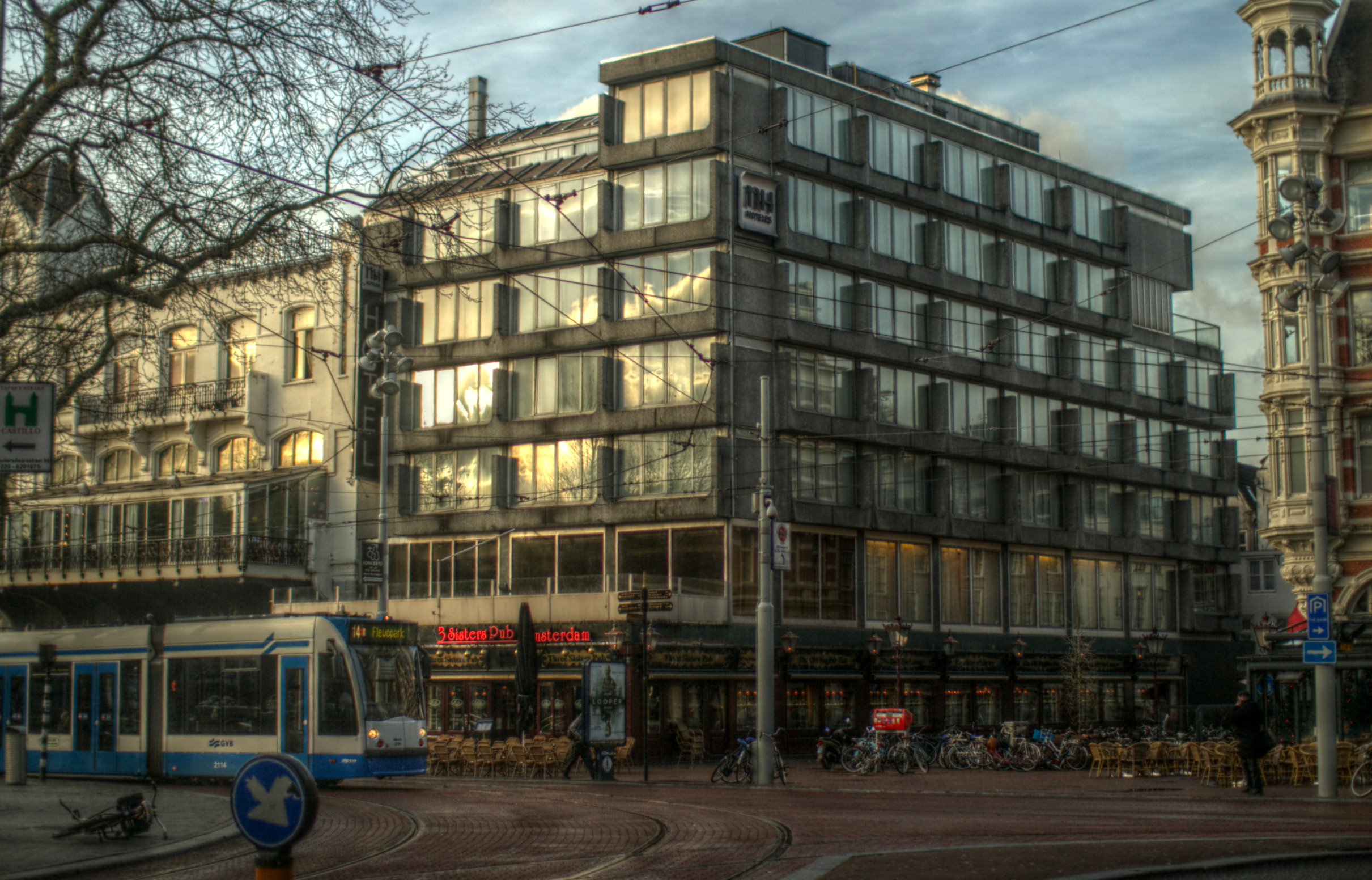 Hotel Caransa on the Rembrandtsplain in Amsterdam. Design by Piet Zanstra. Image december 2012